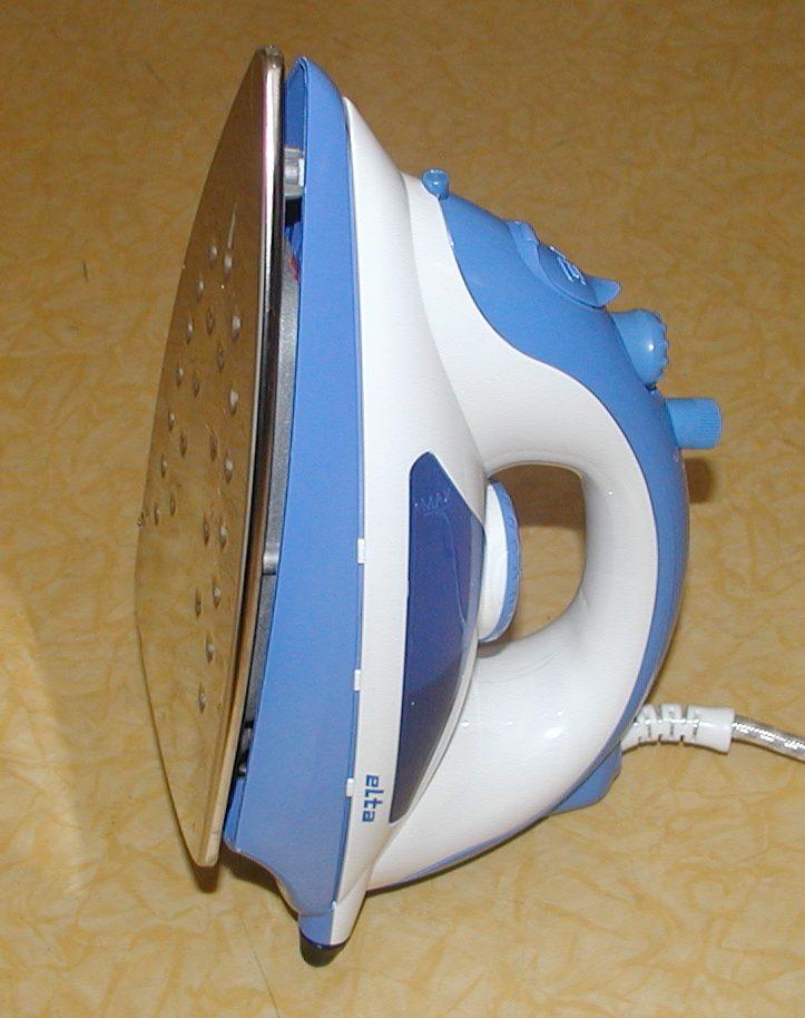 Electric iron